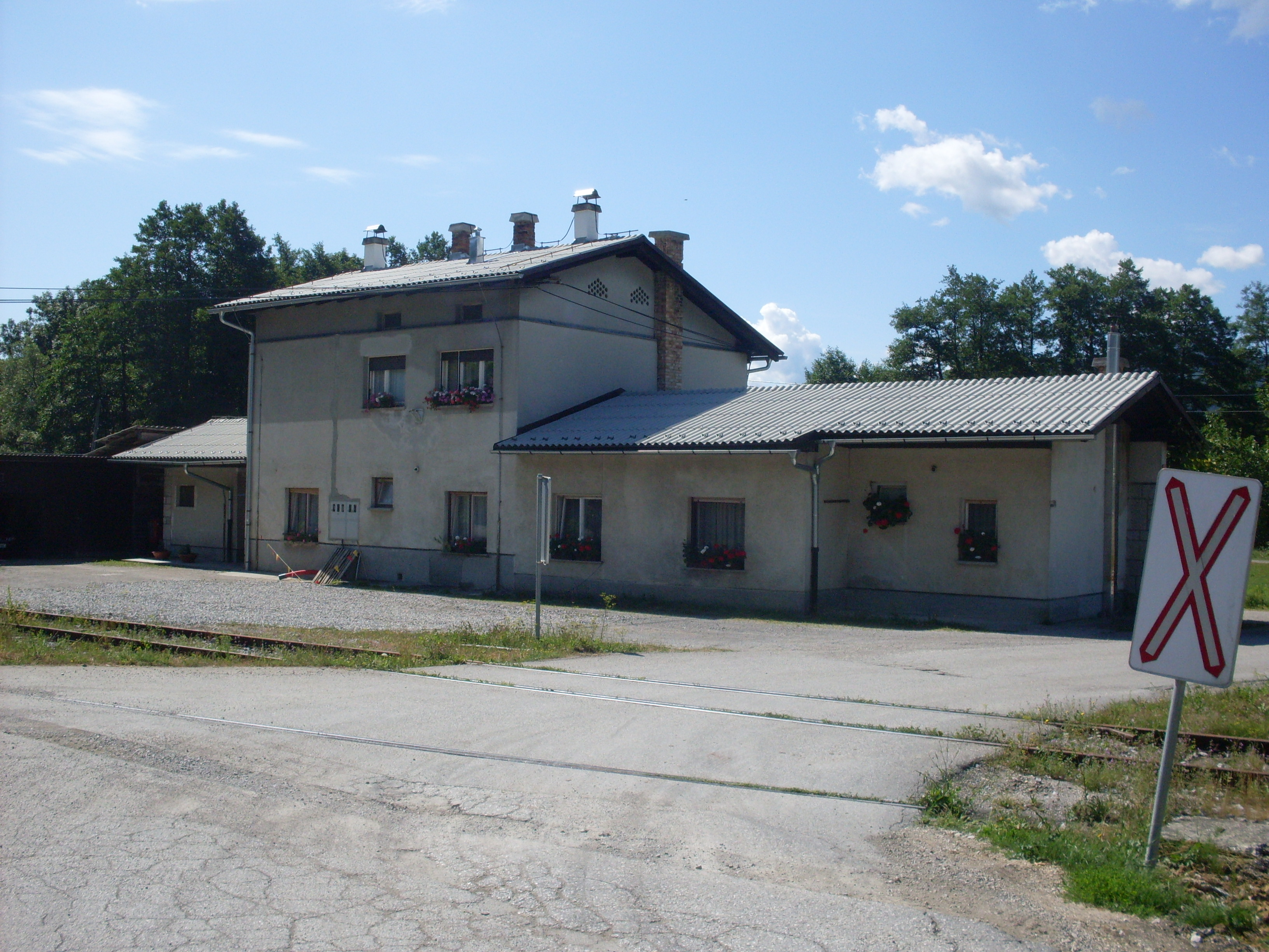 Former train station Žlebič - Sodražica, located in ŽlebičSlovenščina: Nekdanja železniška postaja Žlebič - Sodražica v Žlebiču